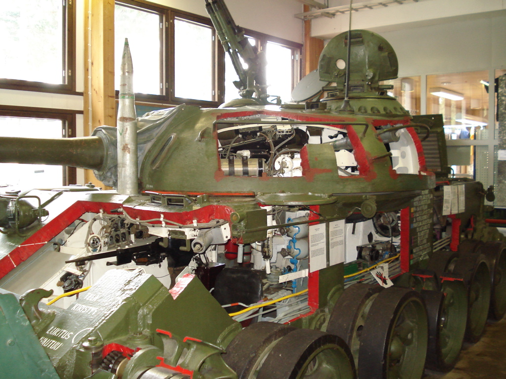 Russian T-54 tank, used by Finland. This model was cut open in for training purposes. Various systems of the tank have been illustrated with different colors. Finnish Tank Museum (Panssarimuseo) in Parola.